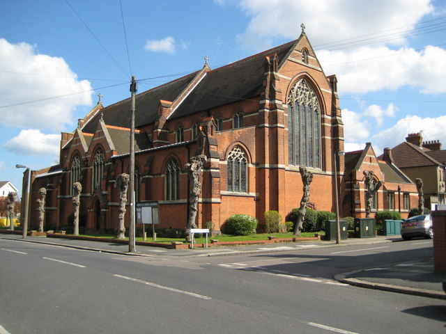 Headstone: Church of St George The church was mainly built between 1910 and 1911 to the designs of the church architect John Samuel Alder. Alder's original design envisaged a tower at the near corner but this never came to fruition. After a break of some fifty years the church was completed and consecrated in 1961. The Church's website is here